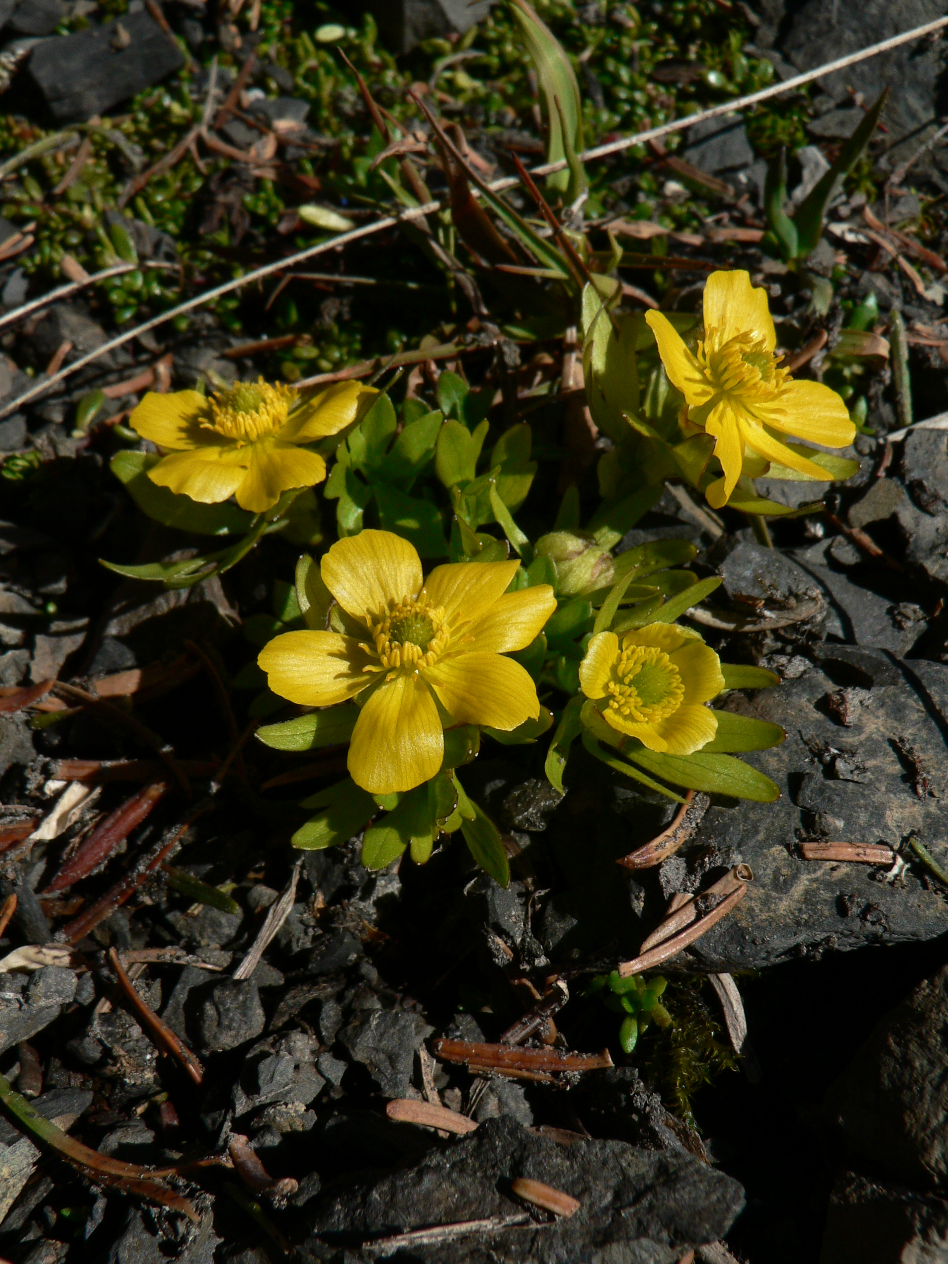 Eschscholtz's buttercup